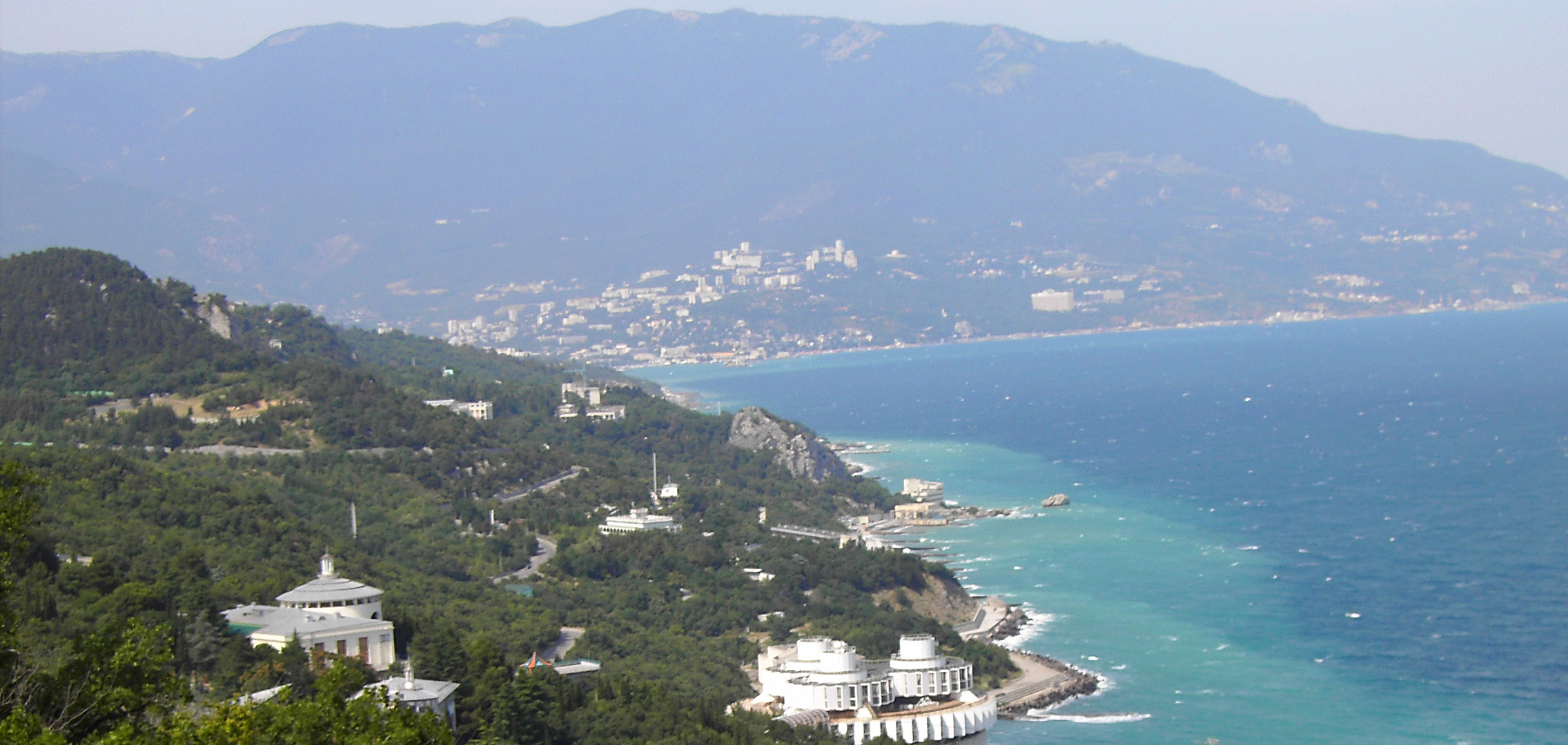 View of Yalta from the Tsar's Path.